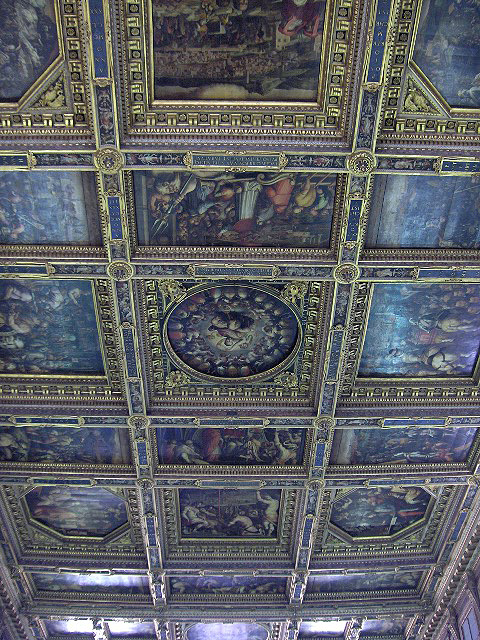 Coffer ceiling with 39 painted panels in the Salone dei Cinquecento, Palazzo Vecchio, Florence, Italy Own photo - photo made on 12 October 2005